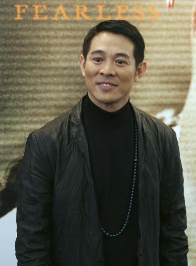 Jet Li at Fearless Premiere taken myself Bân-lâm-gú: 李連杰佇電影"霍元甲"的首映. Lí Liân-kiat tī tiān-ián Hok Guân-kah ê siú-ìng.